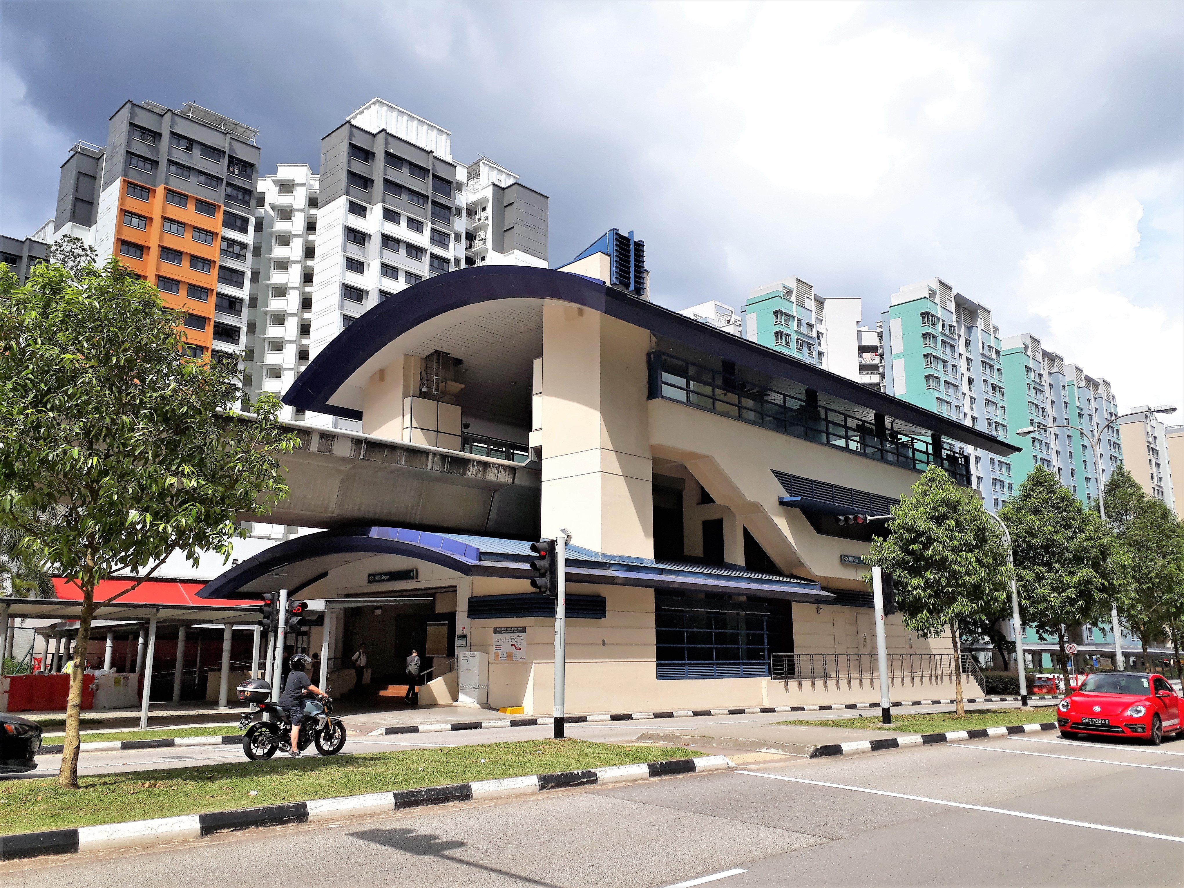 Exterior of Segar LRT Station